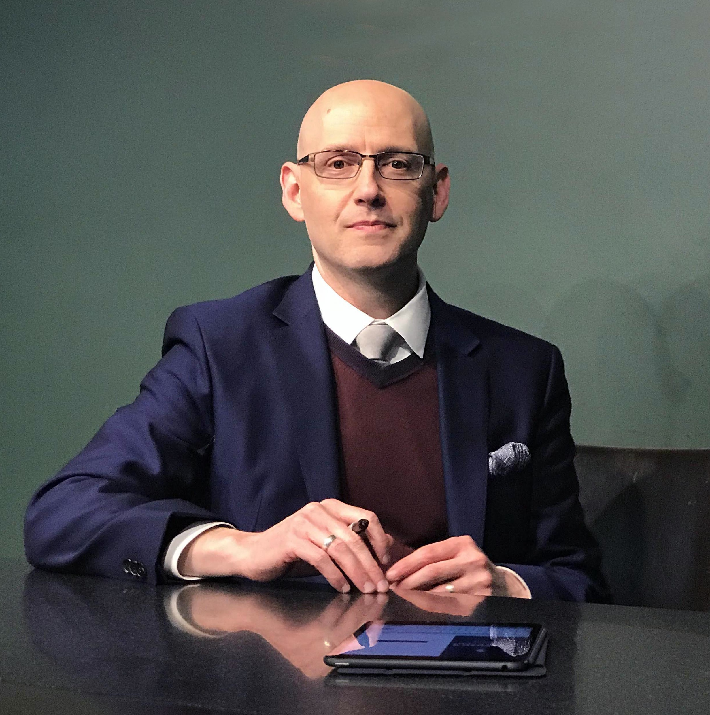 Author and television personality Brad Meltzer at a March 6, 2018 signing for his crime novel, The Escape Artist, at Barnes & Noble in Union Square, Manhattan. This photo was created by Luigi Novi. It is not in the public domain, and use of this file outside of the licensing terms is a copyright violation.